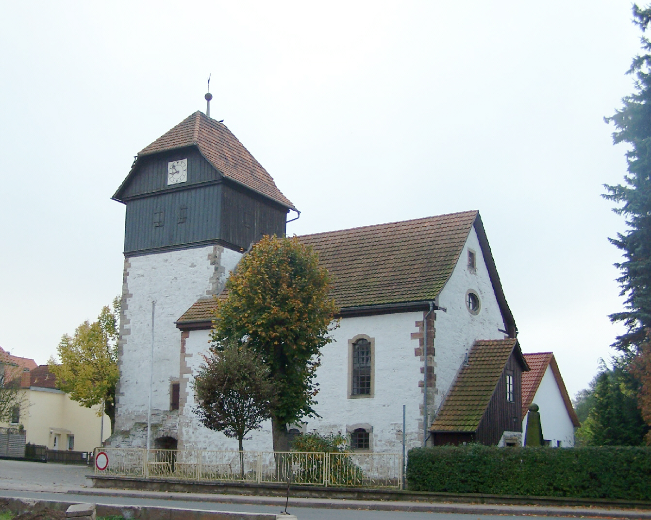 The church in Unterellen.